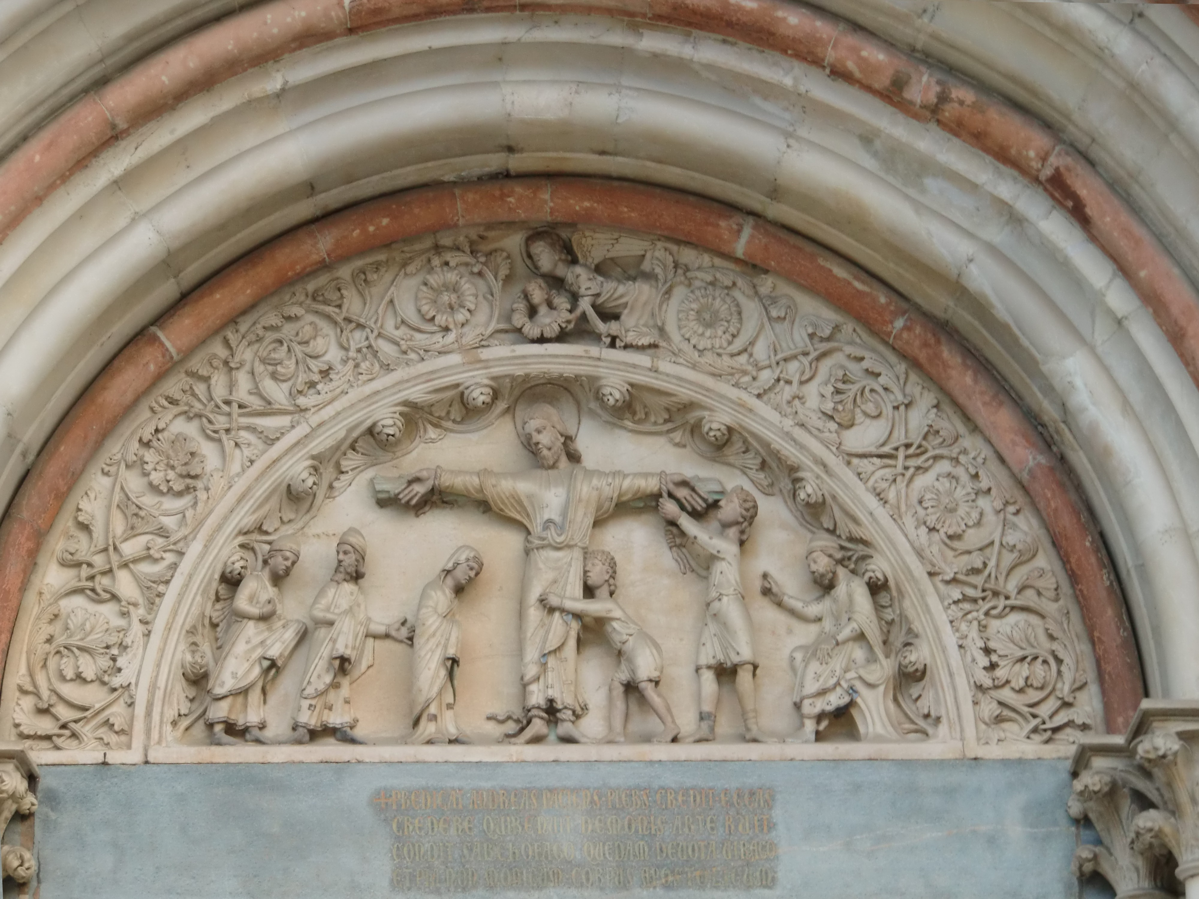 Martyrdom of Saint Andrew. Romanesque relief in the lunette of the main portal of the Church of Sant'Andrea in Vercelli (Italy), carved by Benedetto Antelami, 1220-1225.